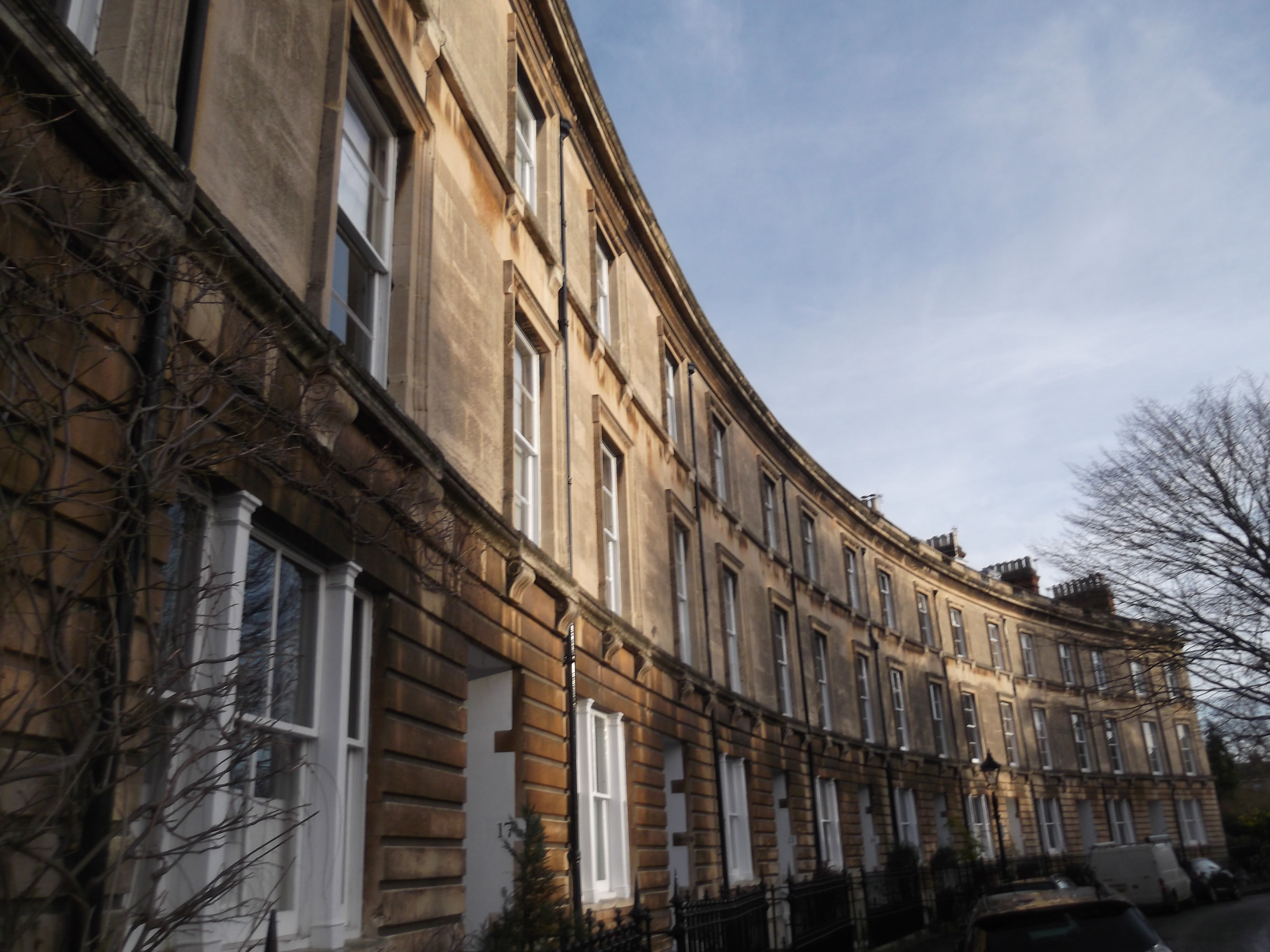 View of crescent houses in Park Town, North Oxford, England.